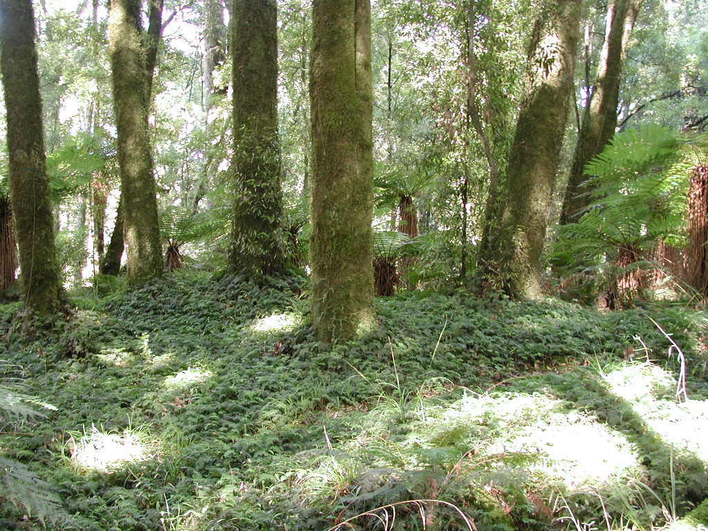 Fern groundcover in Whirinaki Forest Park near Rotorua, New Zealand.